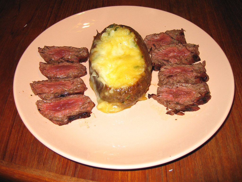 Presentation of cooked hanger steak (with potato).